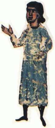 Sordello from a thirteenth-century chansonnier.